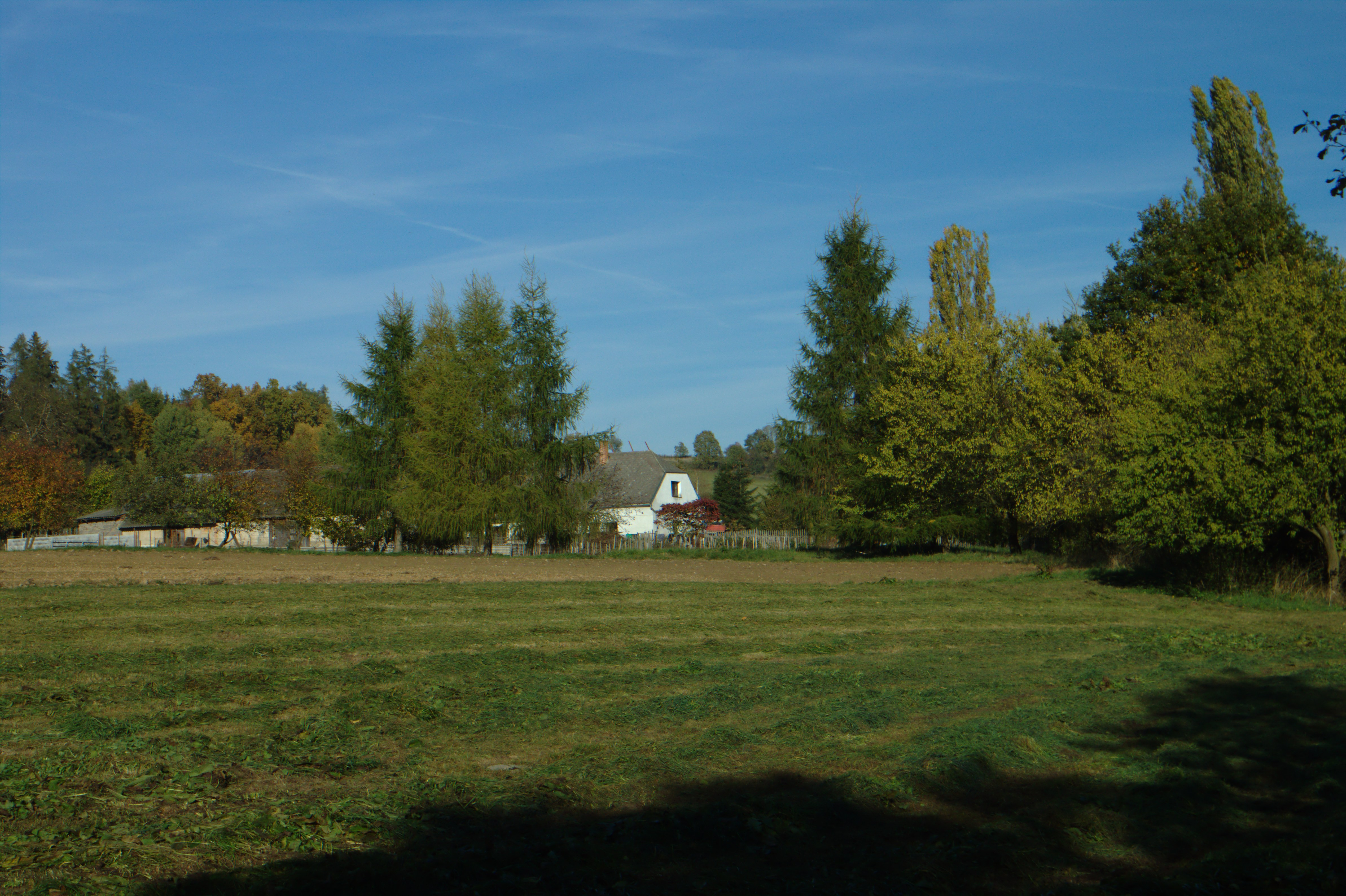 Buildings in the village of Vozerovice, Central Bohemian Region, CZ